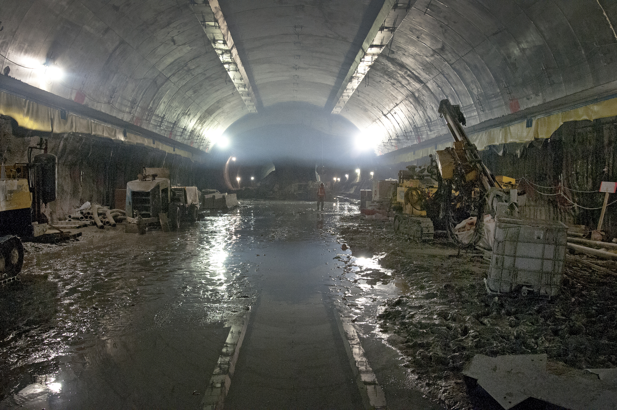 View of construction of a newly built concourse underneath the existing lower level of Grand Central Terminal, New York City. The East Side Access project of the Metropolitan Transportation Authority (New York) is connecting the Long Island Rail Road to the new concourse.